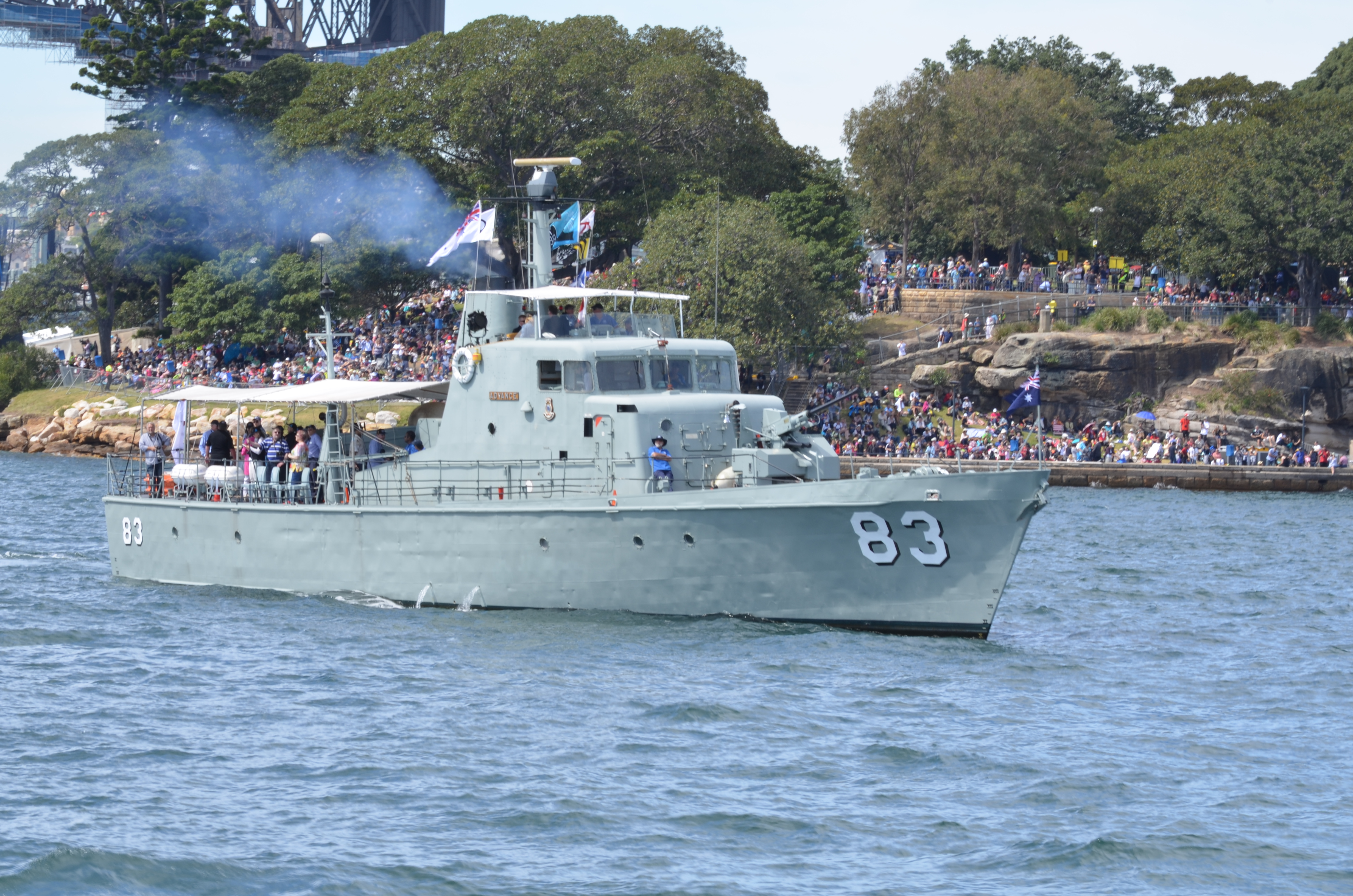 Photographs taken during day 3 of the Royal Australian Navy International Fleet Review 2013. The former Australian patrol boat Advance underway on Sydney Harbour